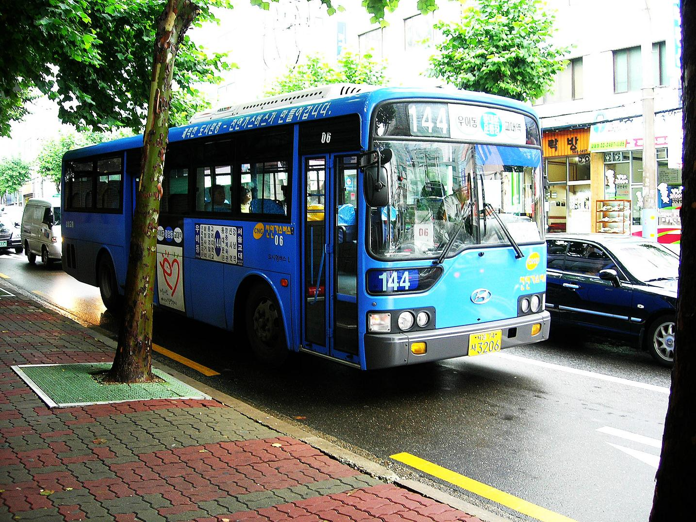 Seoul Bus, Sub-trunk line 144. Newly bought Hyundai New Super AeroCity, NGV. This bus, as with many of Korea's public transit buses, are powered by compressed natural gas], as it states near the top of the vehicle.